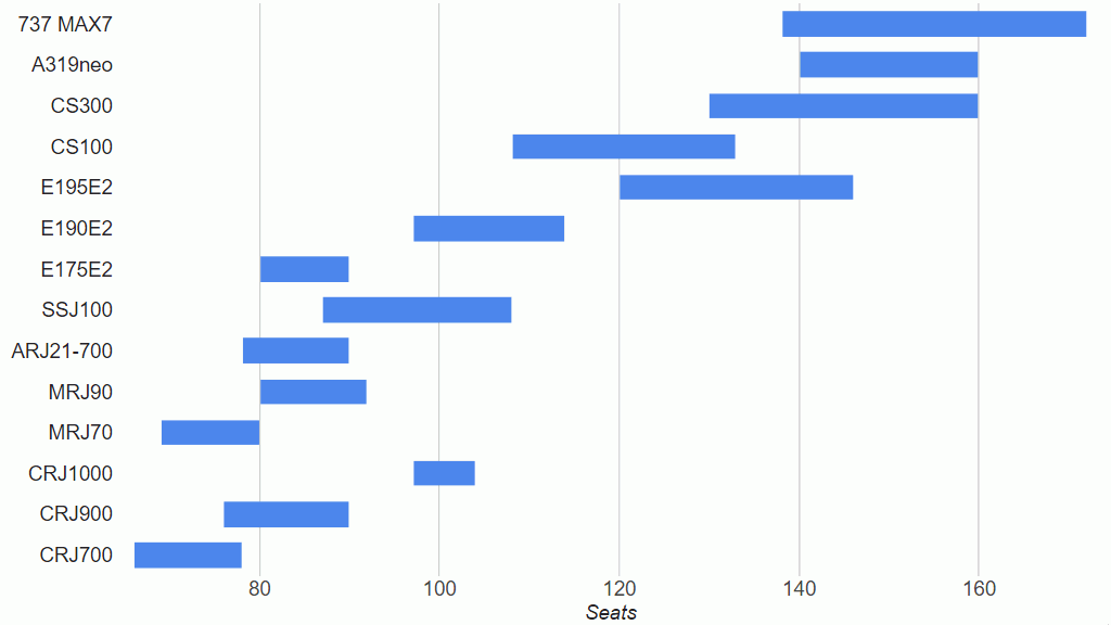 Current and future generation regional jets and small narrowbodies, based on CAPA and Bombardier, updated, editable google doc